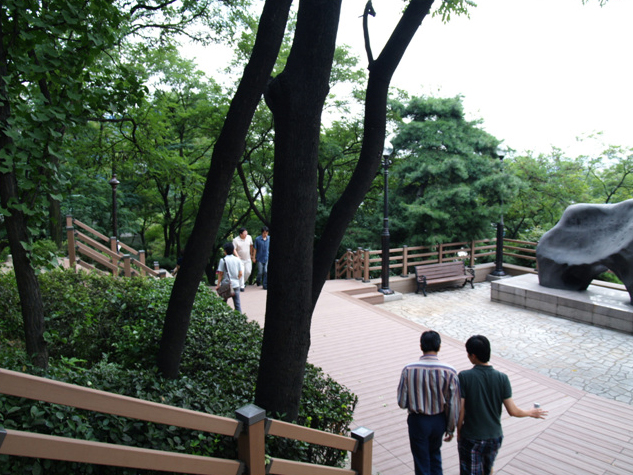 138 stair, which has the most number of steps in Hanyang University